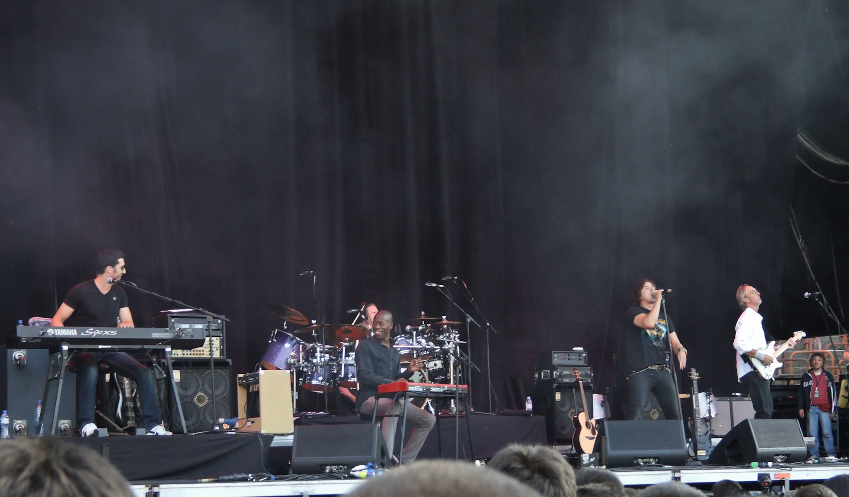 The British pop-rock band Mike + The Mechanics at Sofia Rocks Fest 2011.